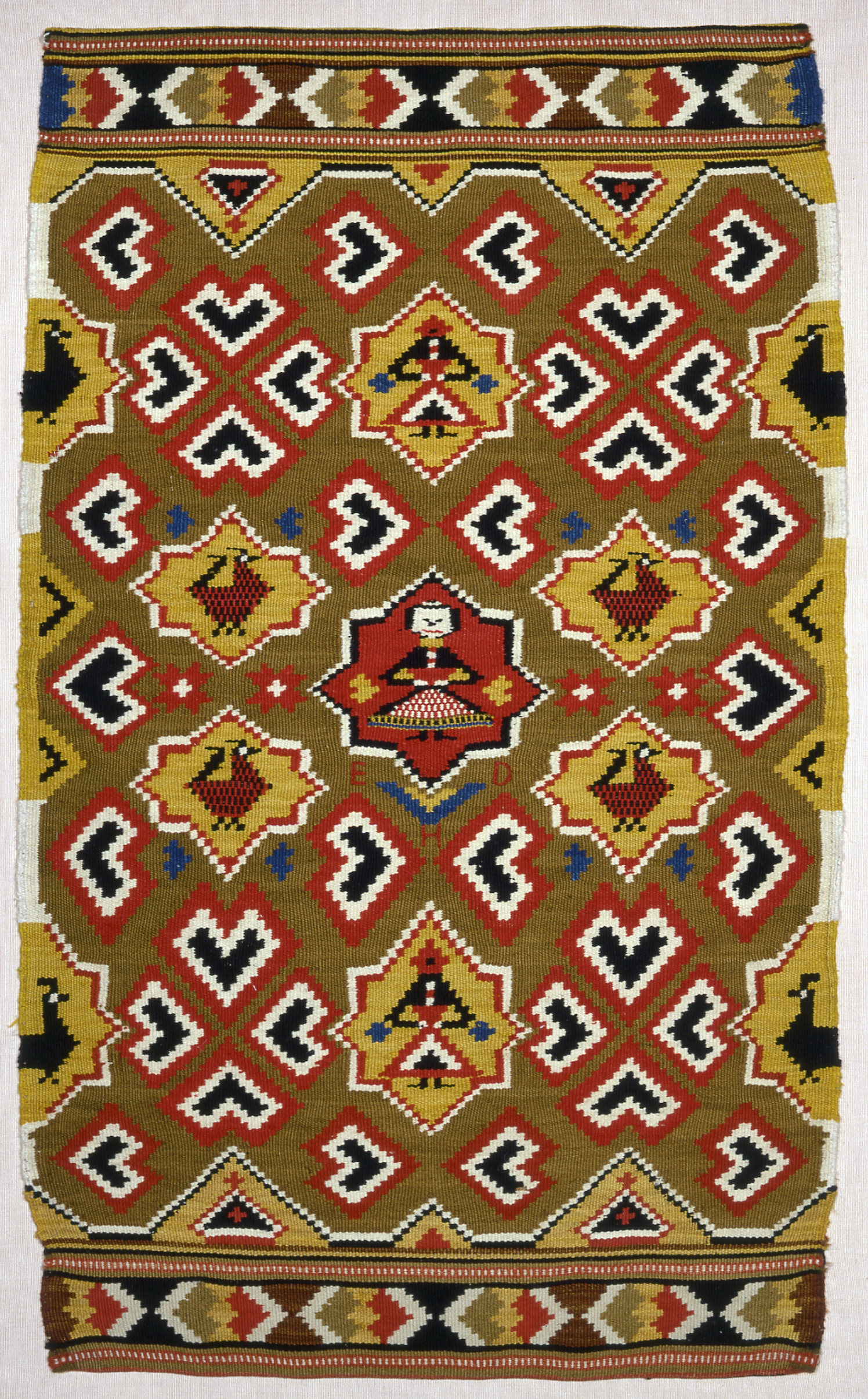 Carriage Cushion Cover (Women and Birds in Stars and Hearts). Accession number SW 34 Ingelstads district, Scania, Sweden, first half of the 19th century. Interlocked tapestry. 58 x 94 cm. From the Khalili Collection of Swedish Textiles